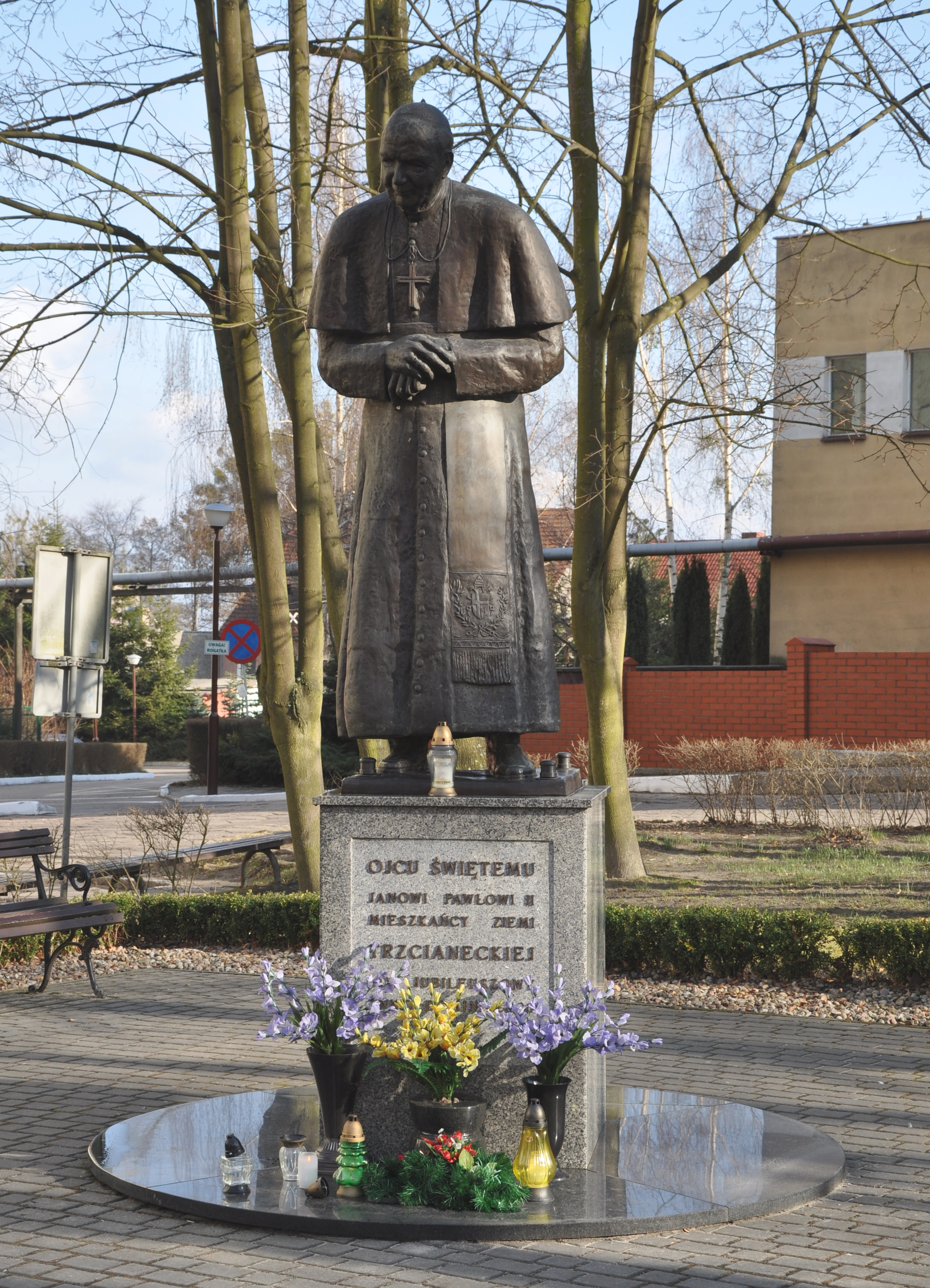 John Paul II monument in Trzcianka, Poland